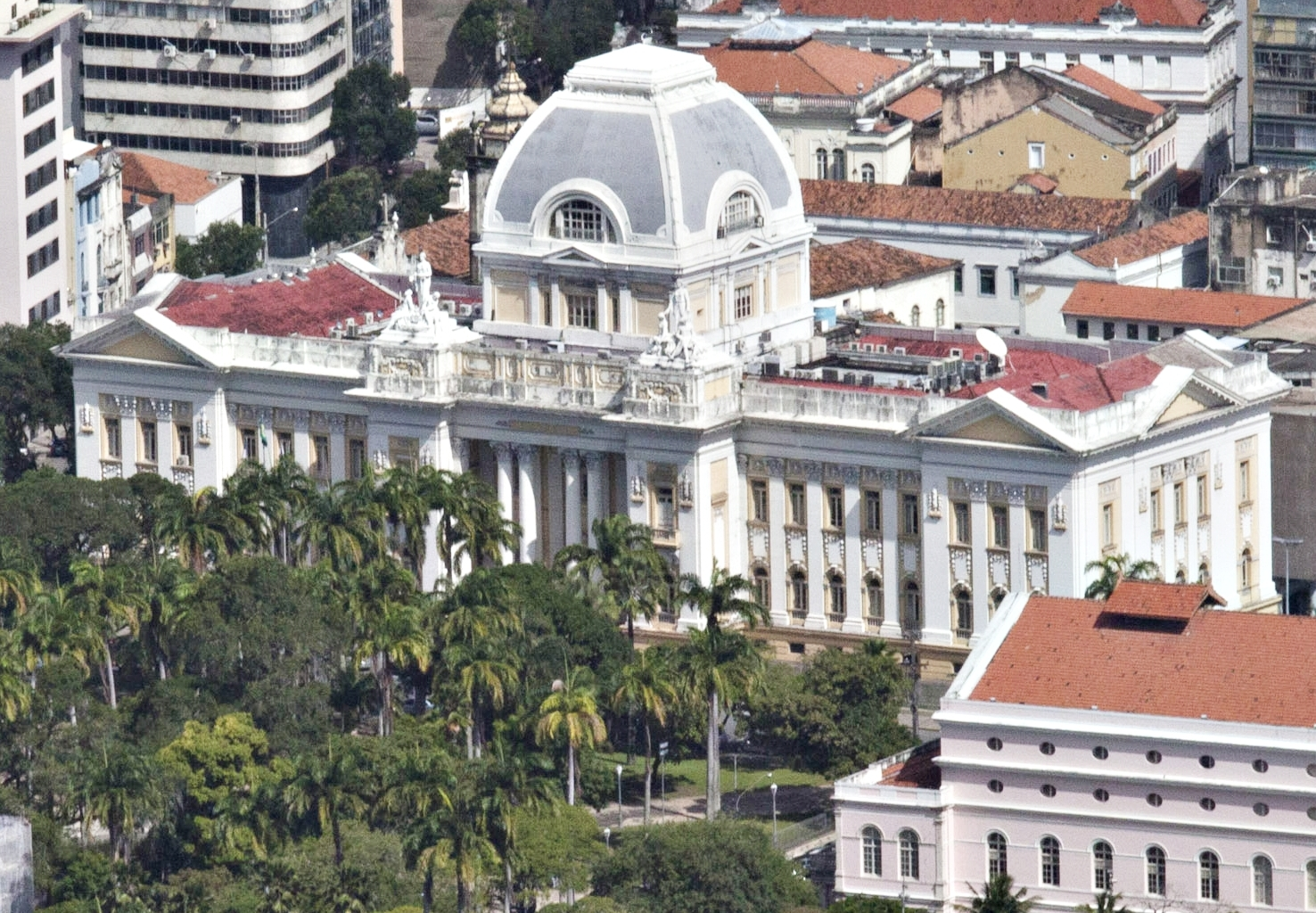 Pernambuco Court of Justice - Recife, Pernambuco, Brazil